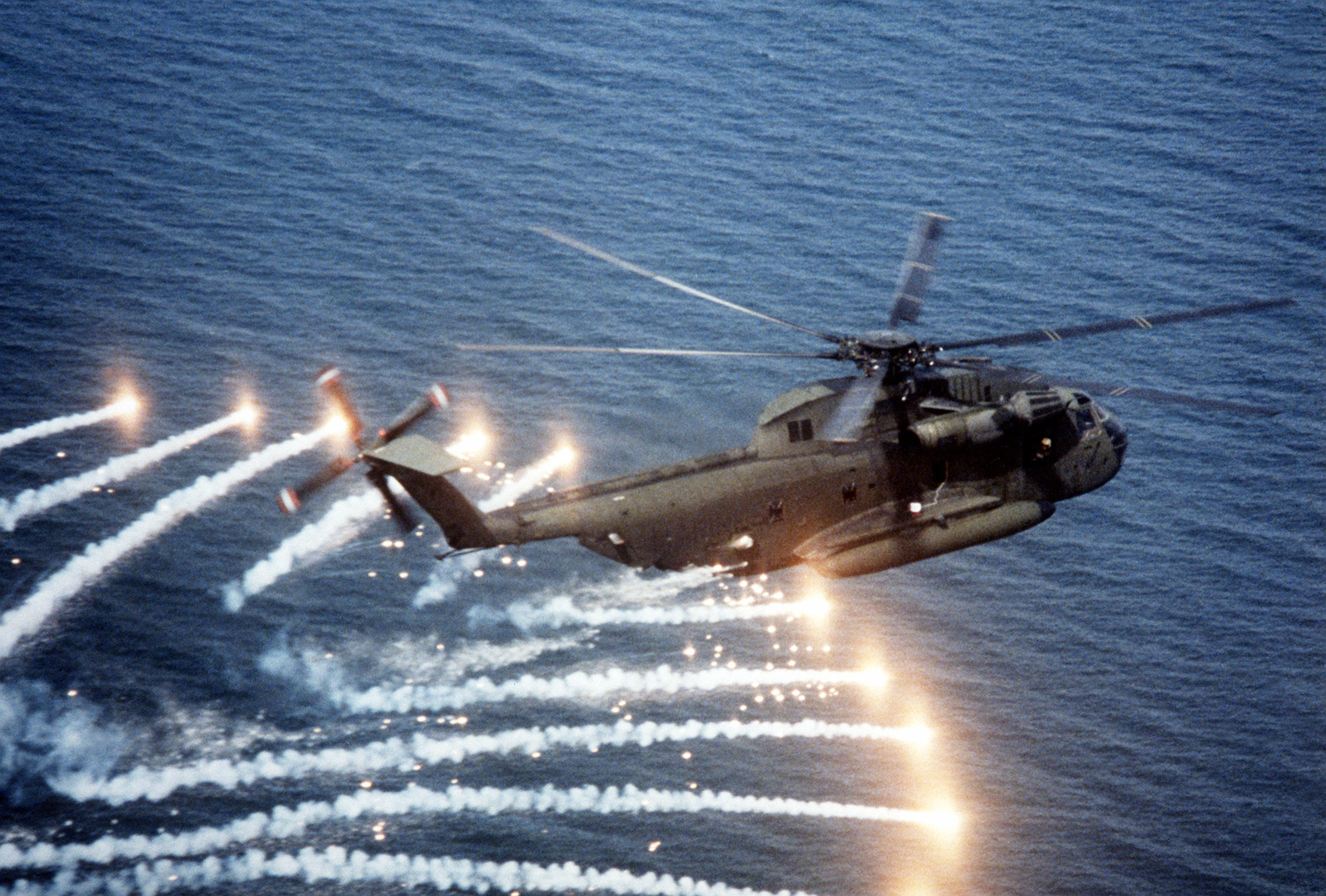 An air-to-air right side view of a CH-53D Sea Stallion helicopter spewing flares near the Naval Air Station, Patuxent River, Maryland. The helicopter is going through an evaluation of the AN/ALC-39 Countermeasures Dispensing System, used to provide protection against guided weapons.